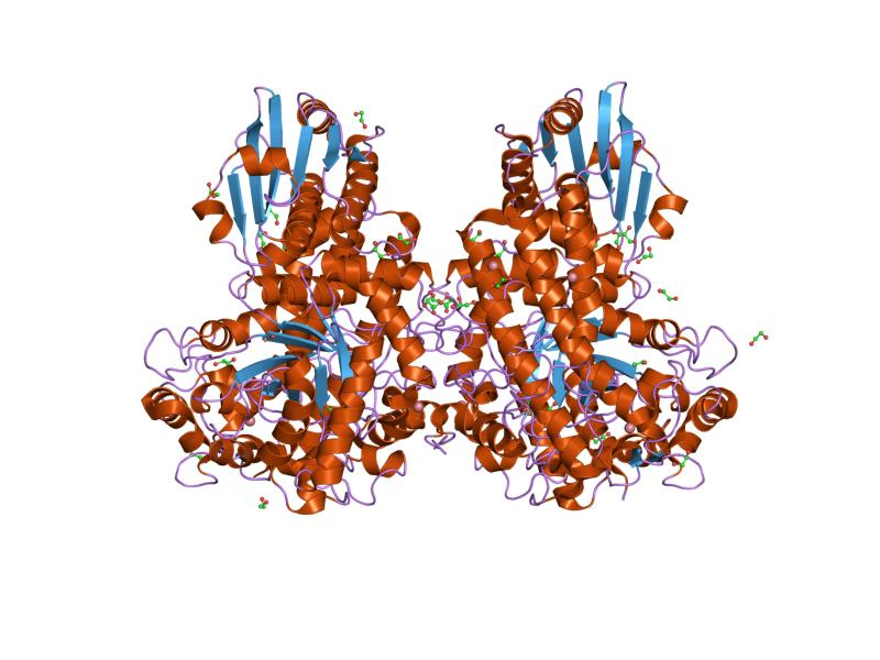 Cartoon representation of the molecular structure of protein registered with 1h41 code.